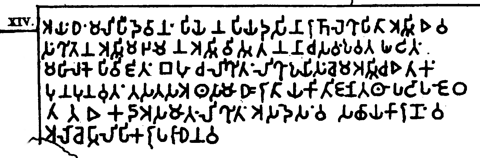 Girnar Major Rock Edict No14